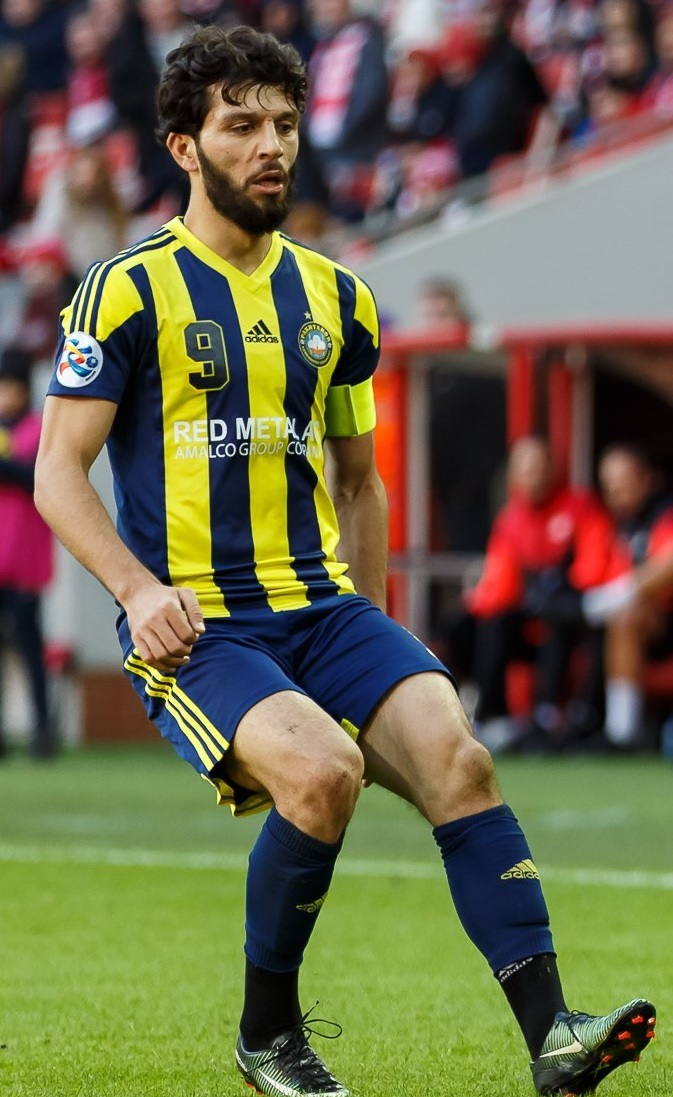 Jaloliddin Masharipov with Pakhtakor Tashkent in a friendly game against FC Spartak Moscow.